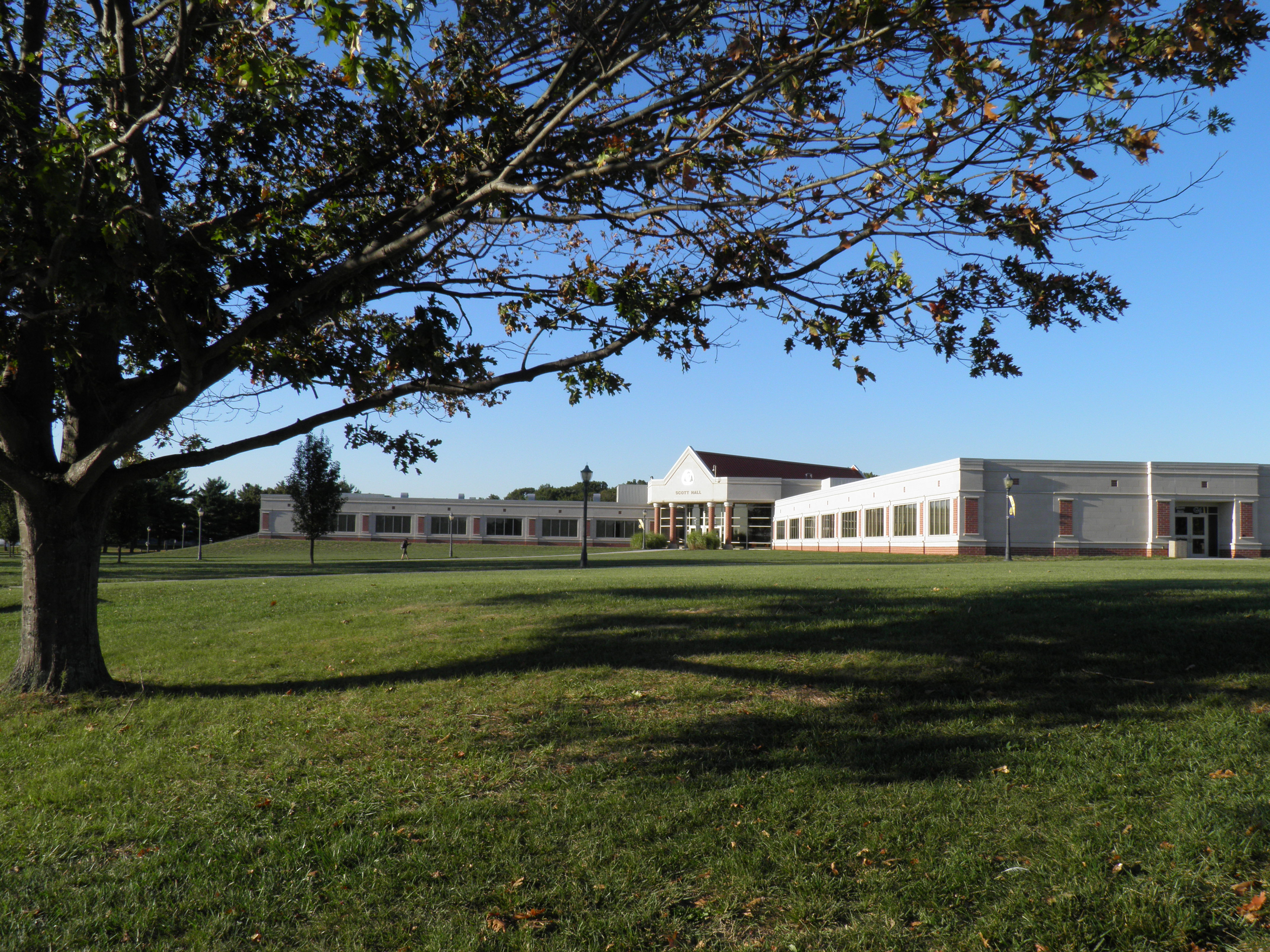 View of Scott Hall at Gloucester County College during daytime